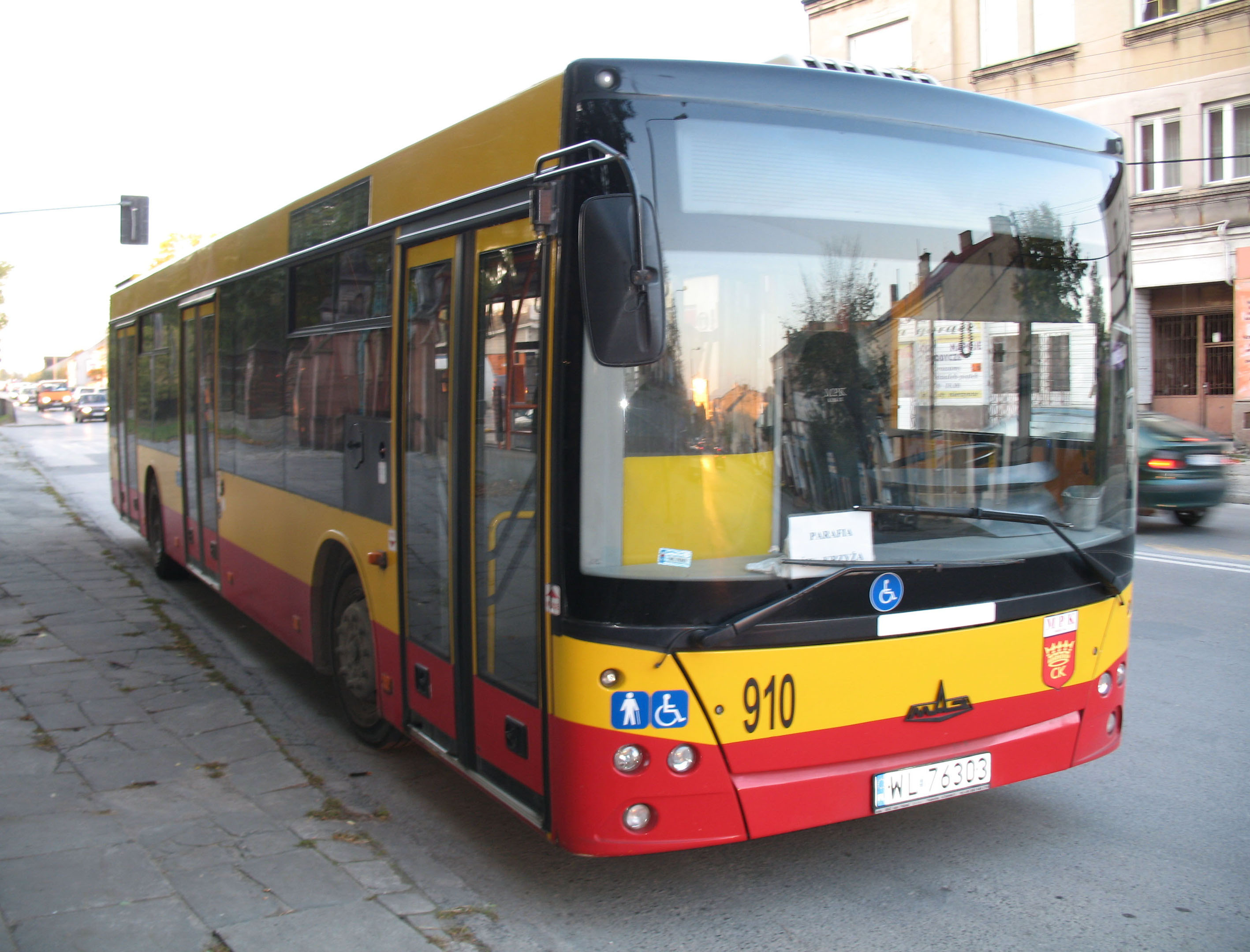 MAZ 203.076 bus (#910) in Kielce, Poland. Built 2008, MPK Kielce operator.